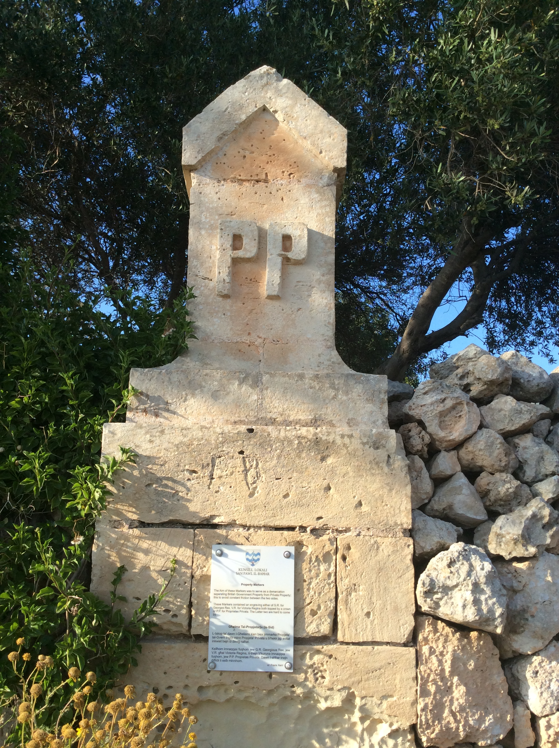 Niches and reliefs in Wardija